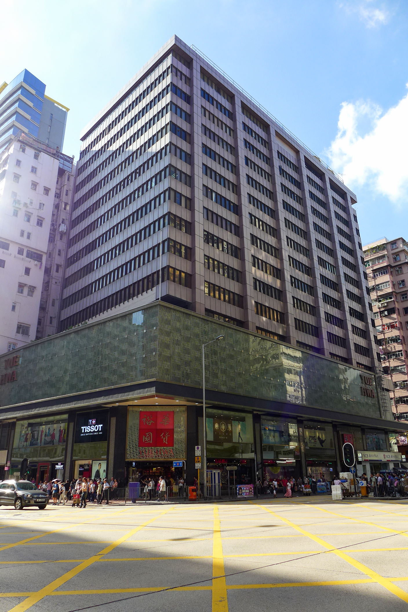 Yue Hwa Chinese Products Emporium Jordan Store